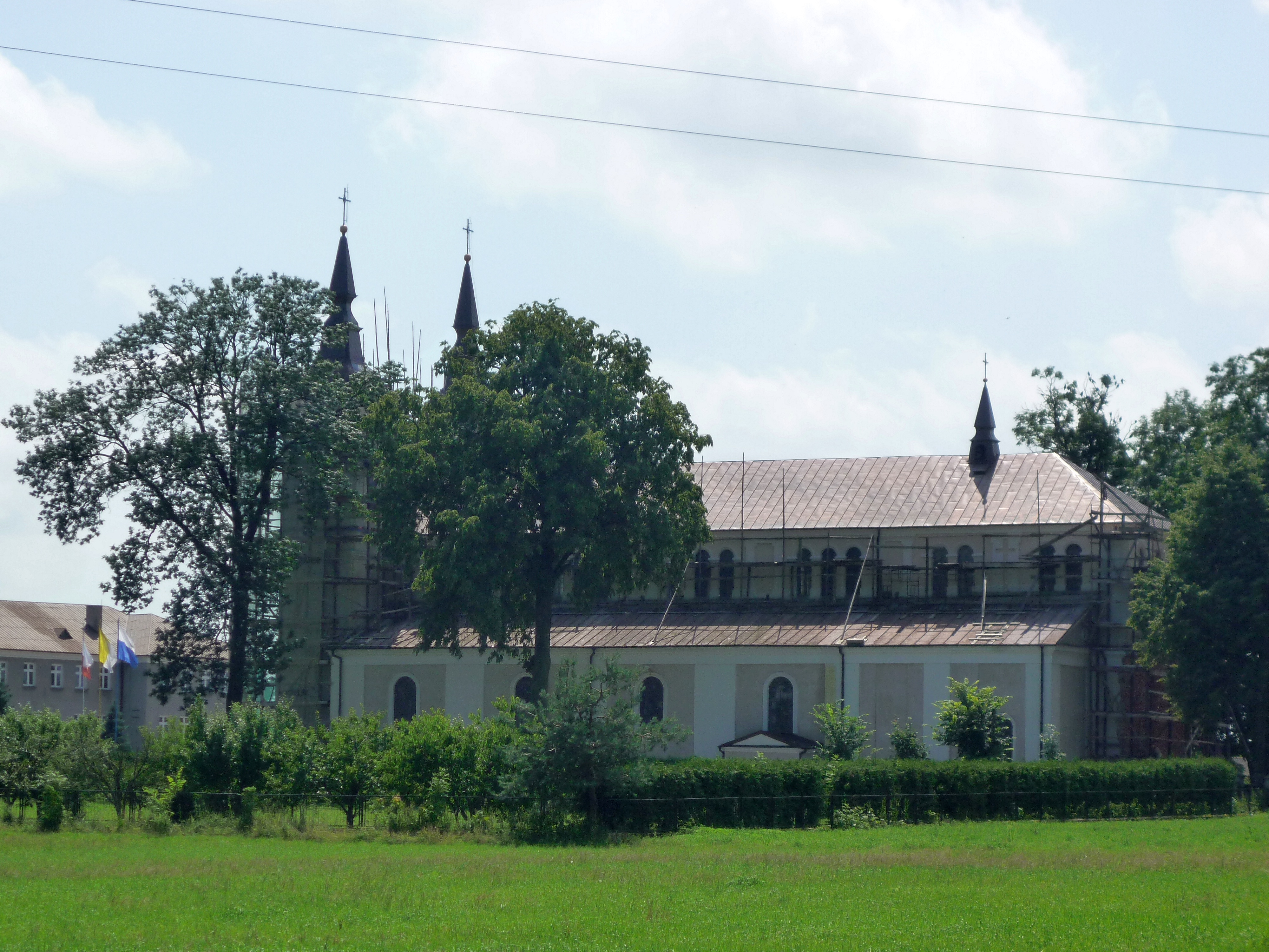 Wysokie Mazowieckie, parish church of St. John the Baptist